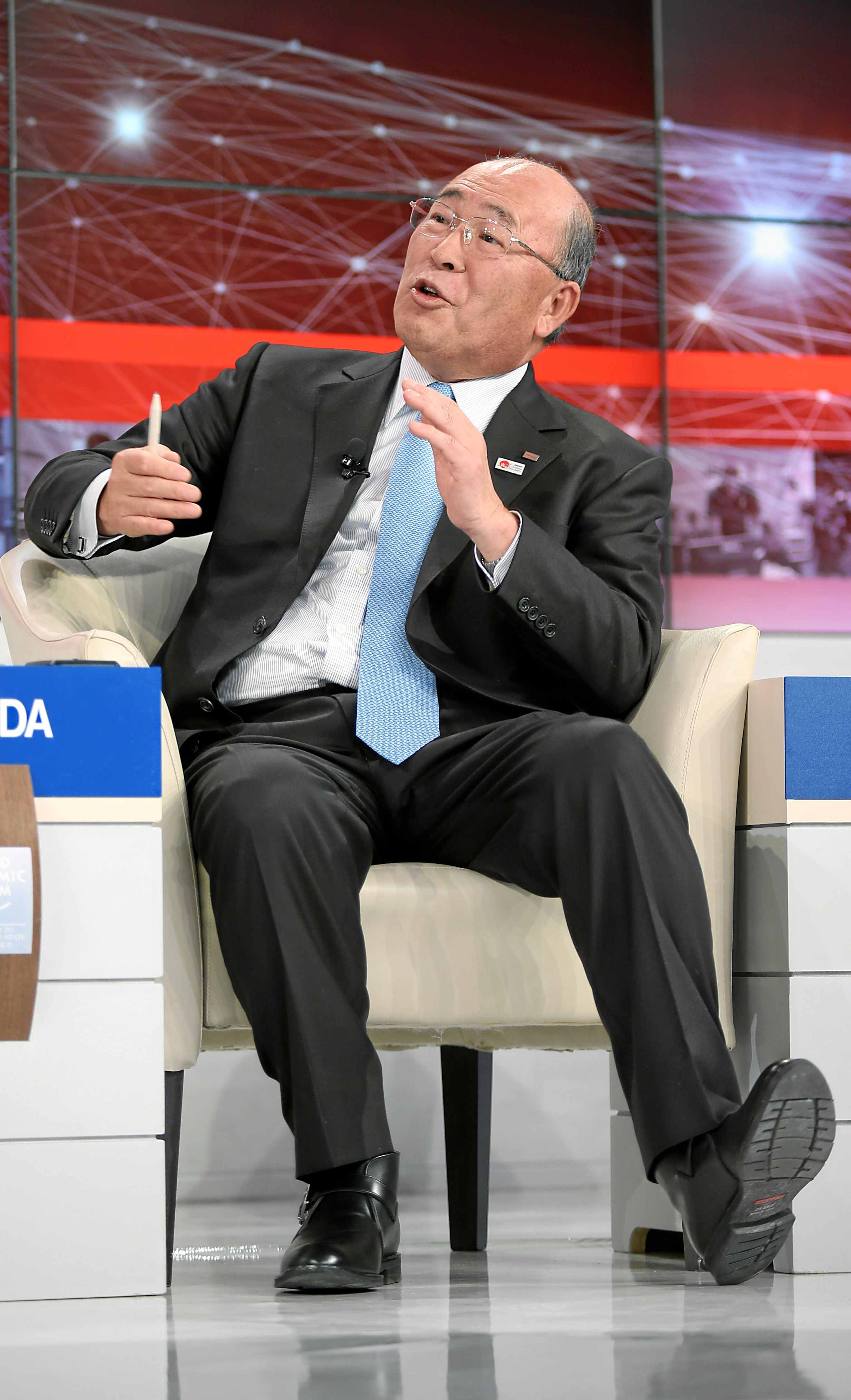 Atsutoshi Nishida, Chairman of the Toshiba Corporation, spoke about the "Citizen Power -- Leading Connected Societies" at the Annual Meeting of the World Economic Forum in Davos Municipality, Graubünden Canton on January 26, 2013.